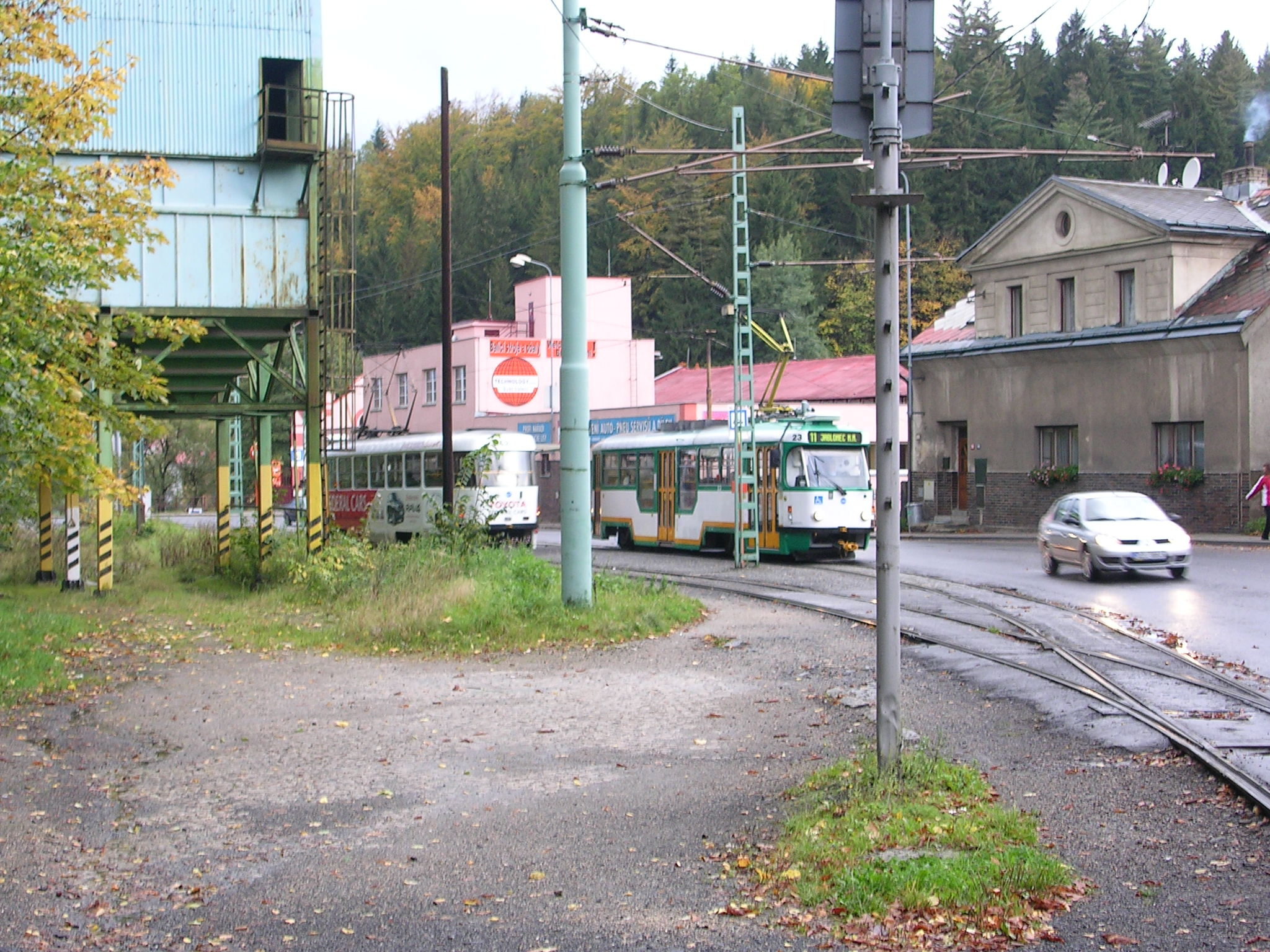 Tramway line between Liberec and Jablonec, Czech Republic. Station "Jablonec nad Nisou, Brandl".